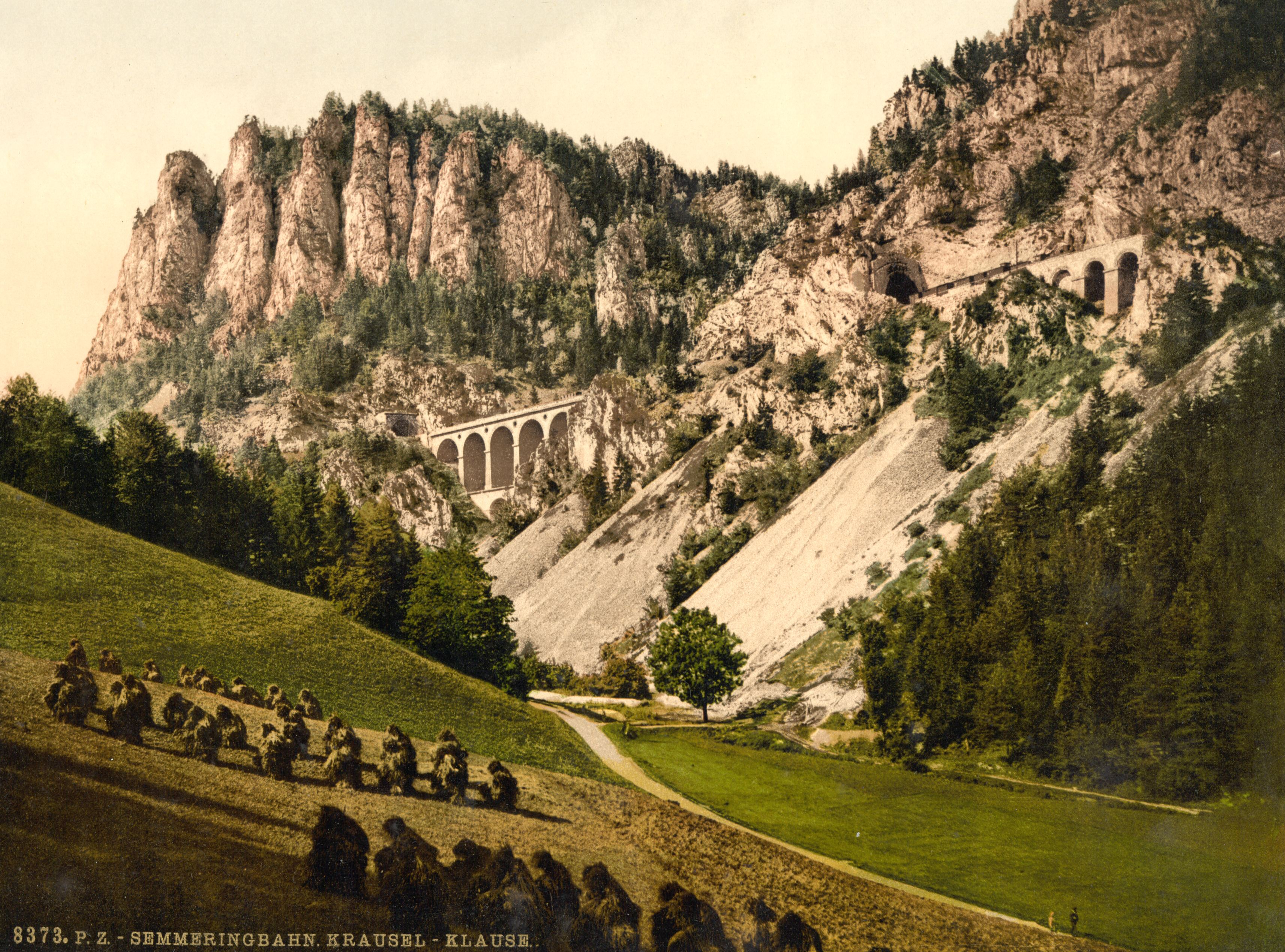 Semmering Railway with viaducts at the Krauselklause in Lower Austria (not Styria as noted in LoC image description!), Austro-Hungary